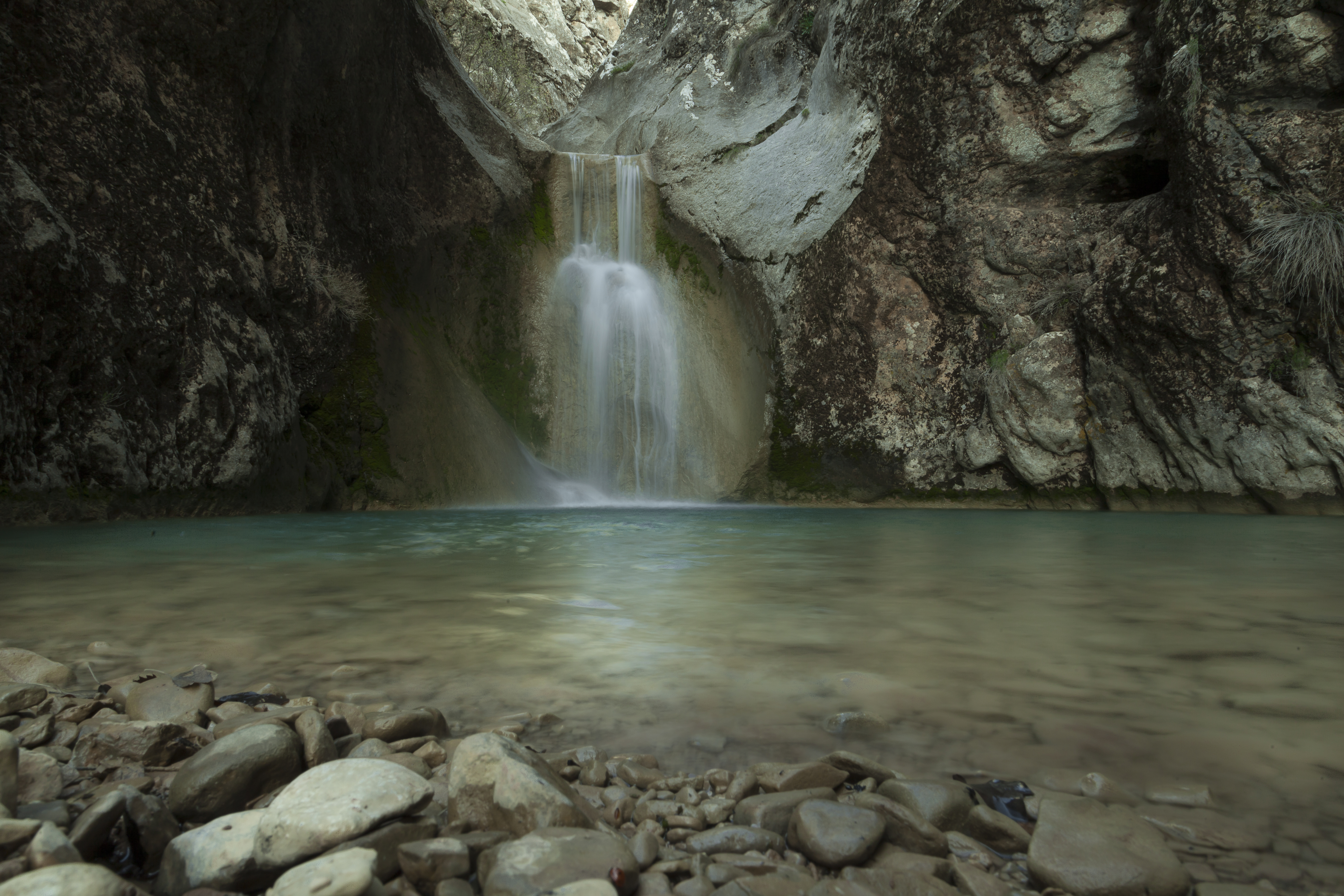 Pendro, which is a village in Kurdistan of Iraq, on the Iraqi Turkey border. This small waterfall is located 20 minutes walking from the village. And the name Sardave means (the cold water) in Badene Kurdish.